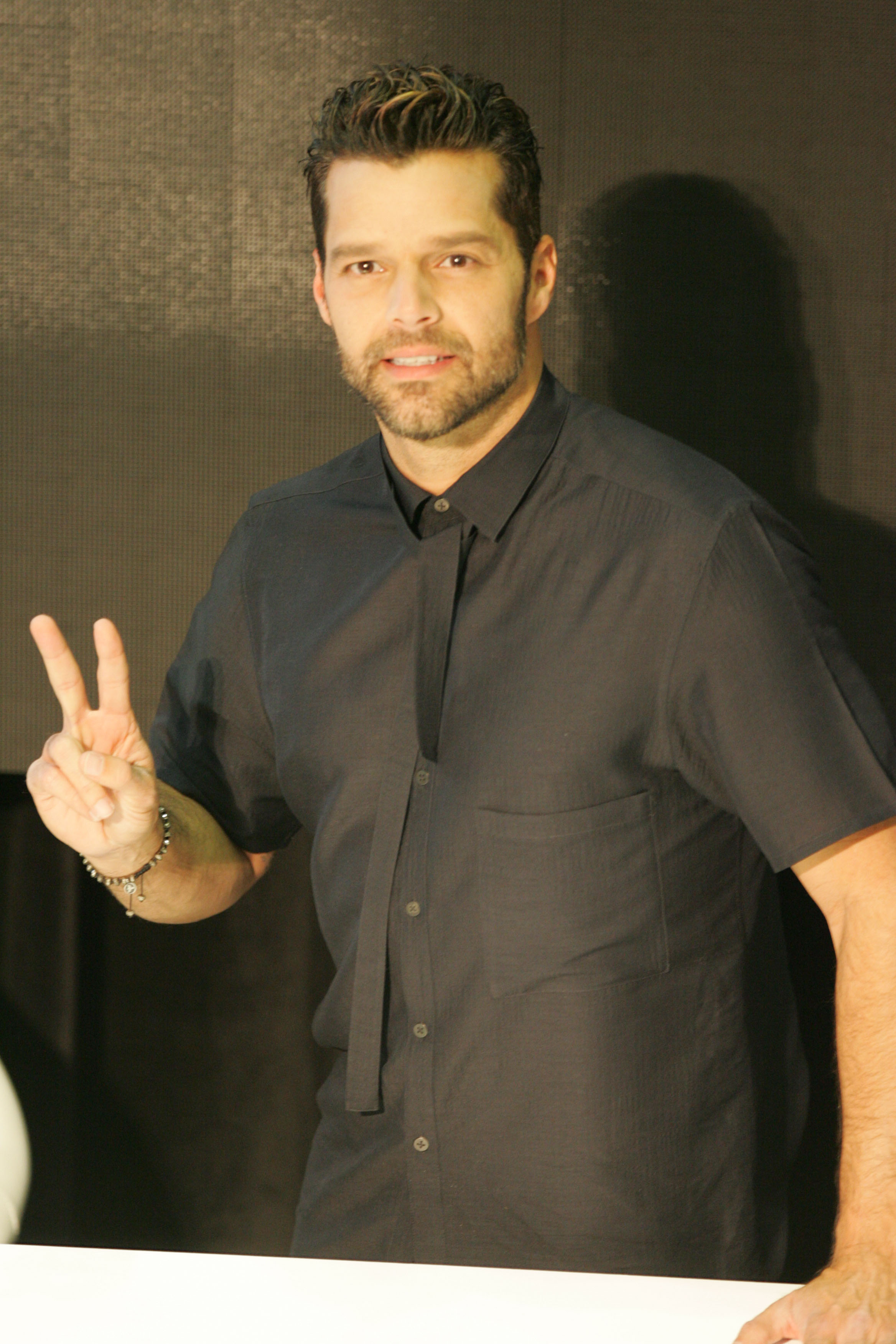 Ricky Martin in store appearance, Westfield Hurstville, Sydney Australia